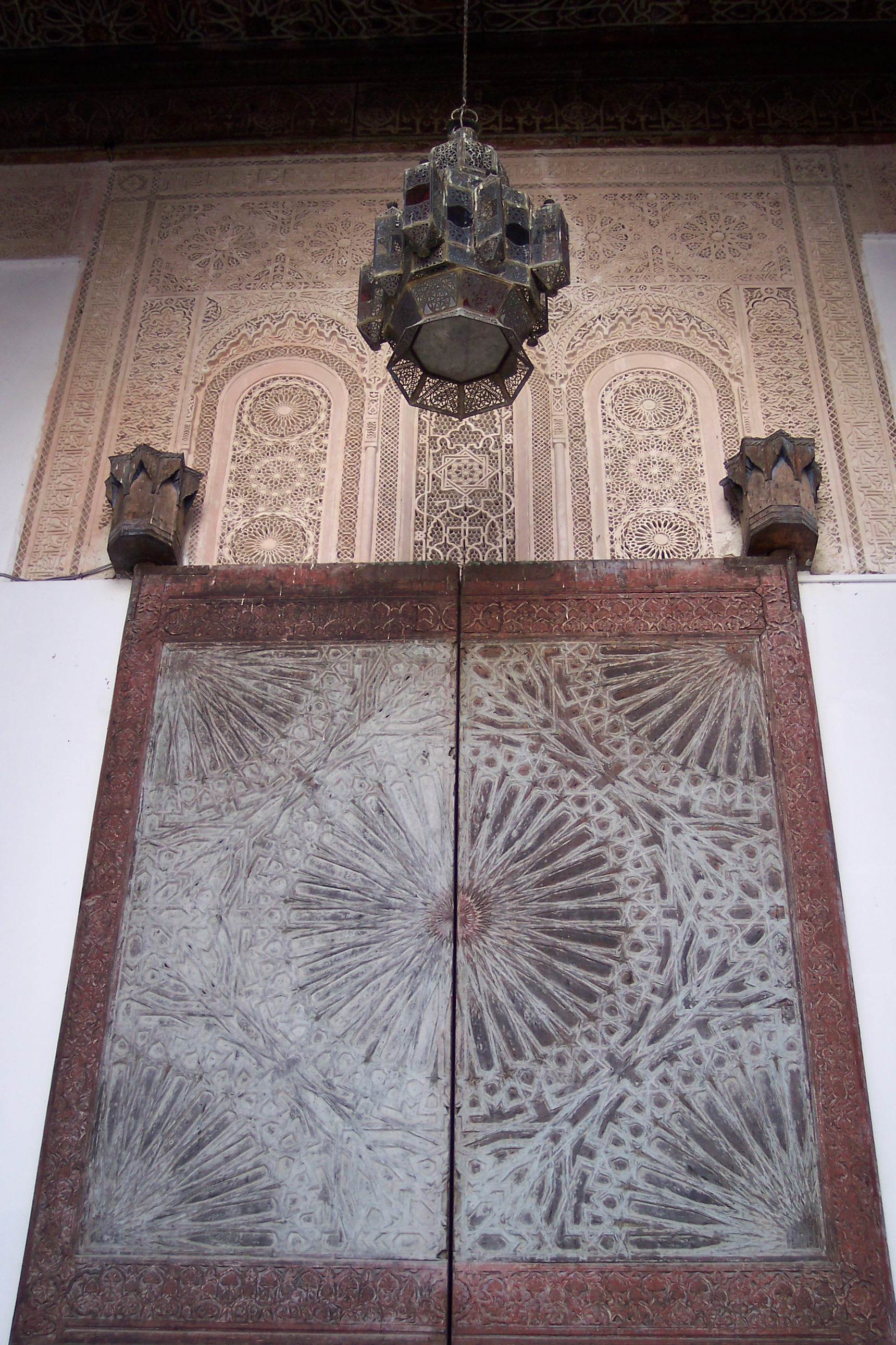 Tangier city museum